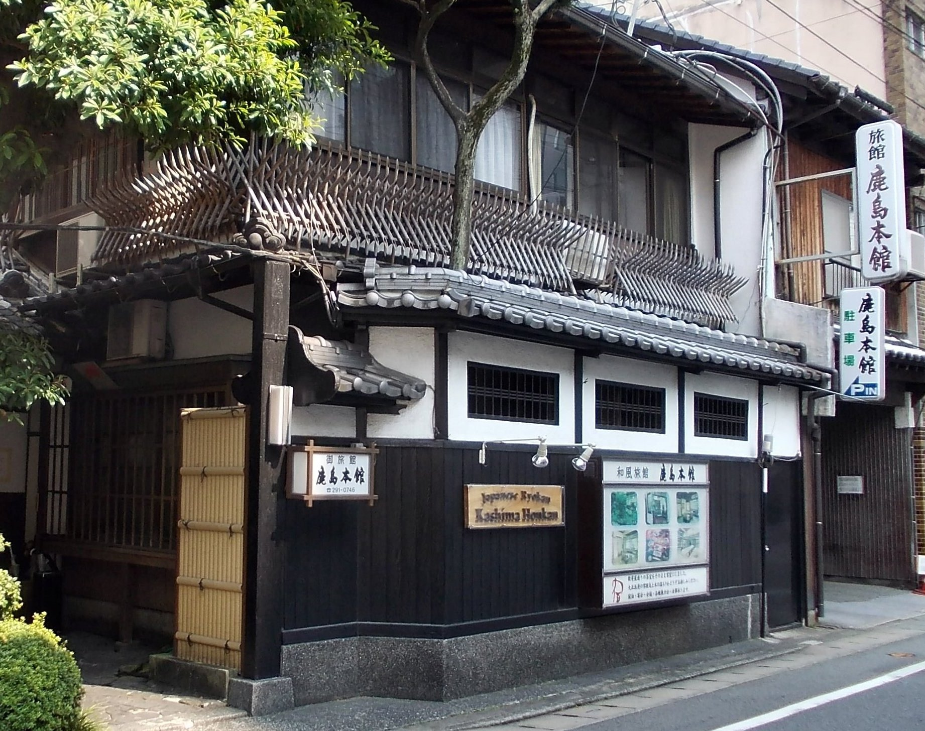 Ryokan Kashima Honkan, 3-11, Reizen-machi, Hakata-ku, Fukuoka, Japan. The building was registered as Tangible Cultural Properties by Japanese Government.